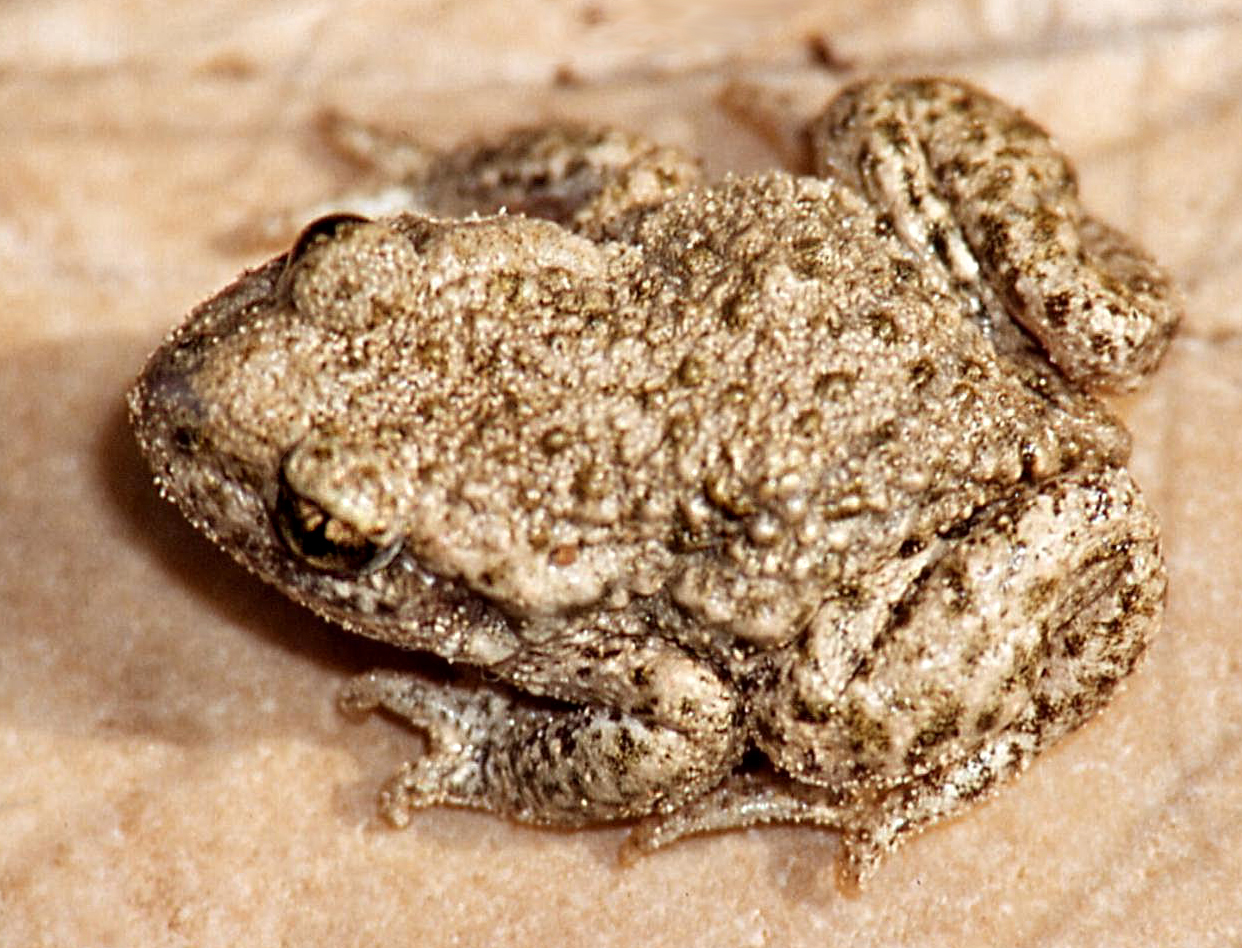 Dorsal side of a male Common Midwife Toad (Alytes obstetricans).